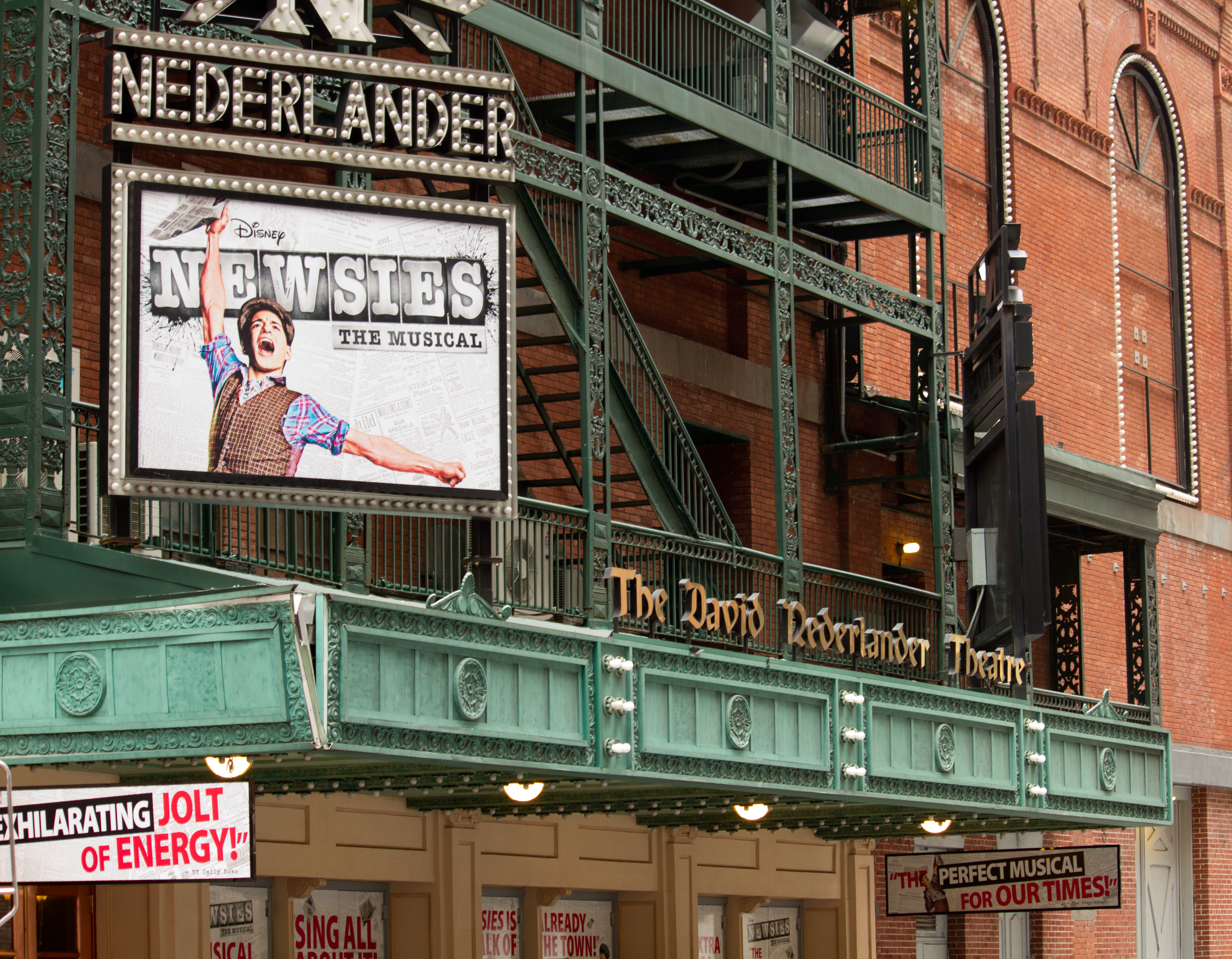 Newsies at the Nederlander Theatre on Broadway, 208 West 41st Street, New York, NY, July 19, 2012